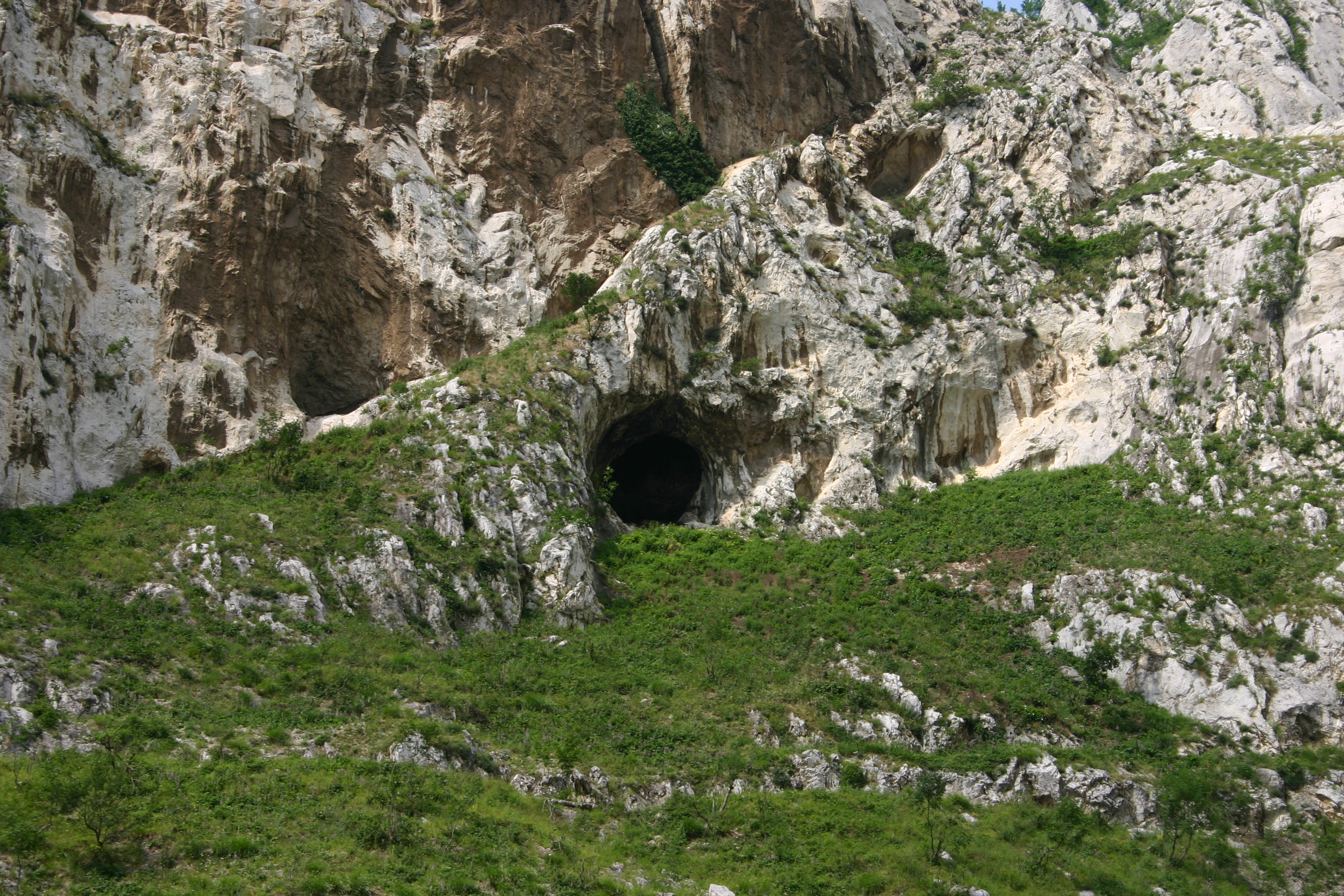 Shpelle karstike ne gelqeroret triasik